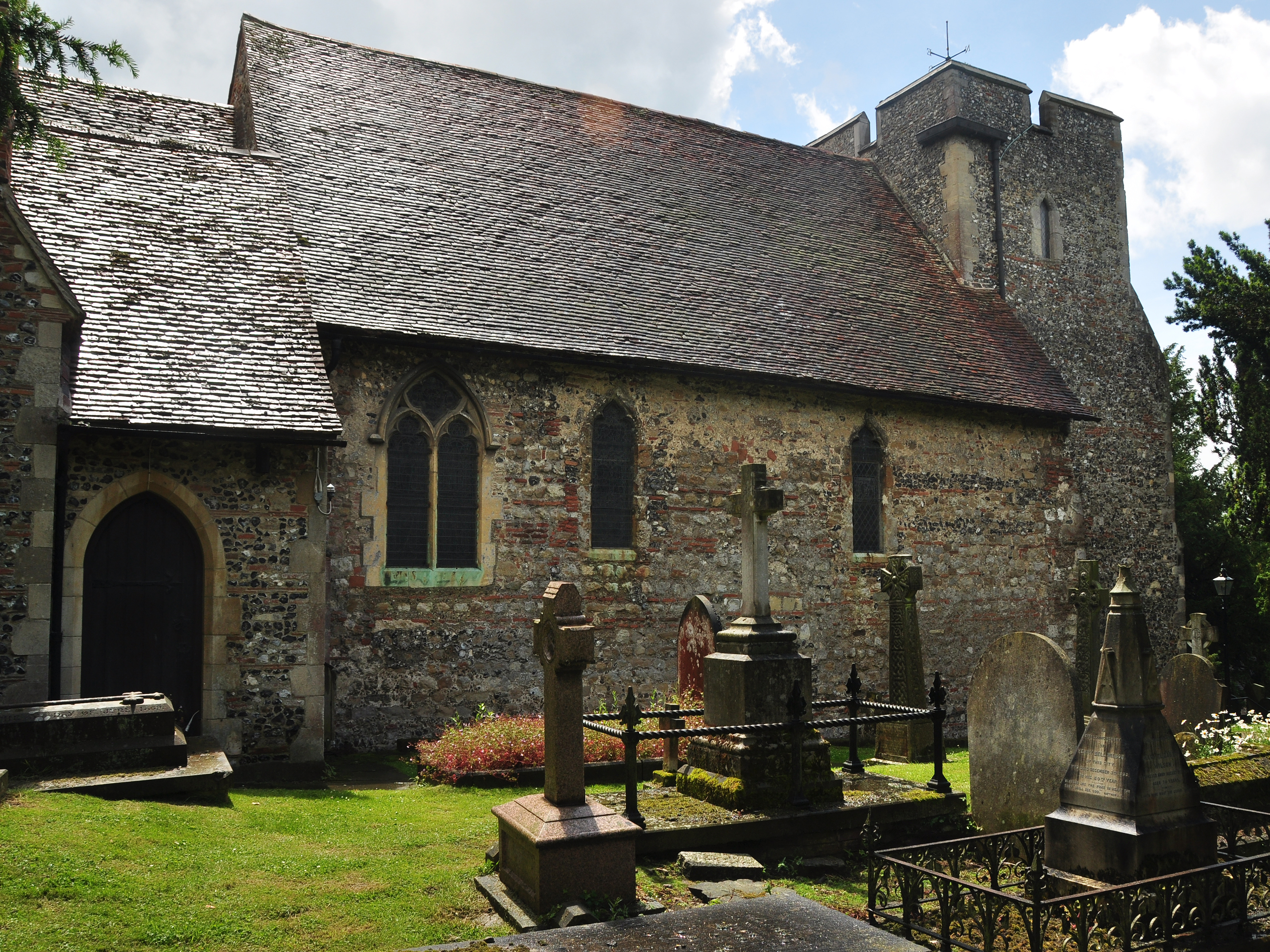 St Martin's Church in Canterbury, Kent.